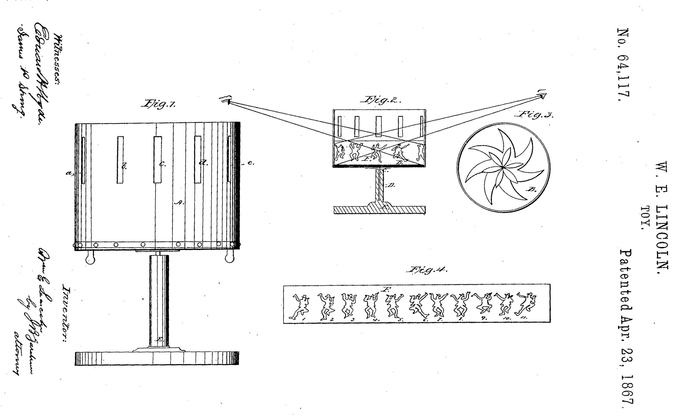 W.E. Lincoln's U.S. Patent No. 6,4117 of Apr. 23, 1867